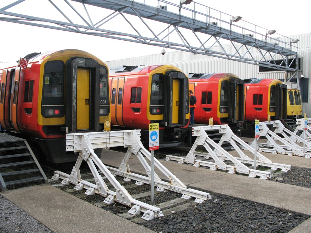 The sidings at Salisbury Traction Maintenance Depot, Wiltshire, England. This is the depot for the South West Trains fleet of Diesel Multiple Units. In the sidings (from left to right) are numbers 159003, 159017, 159022, 158887, and former Class 121 route learning car 960012.